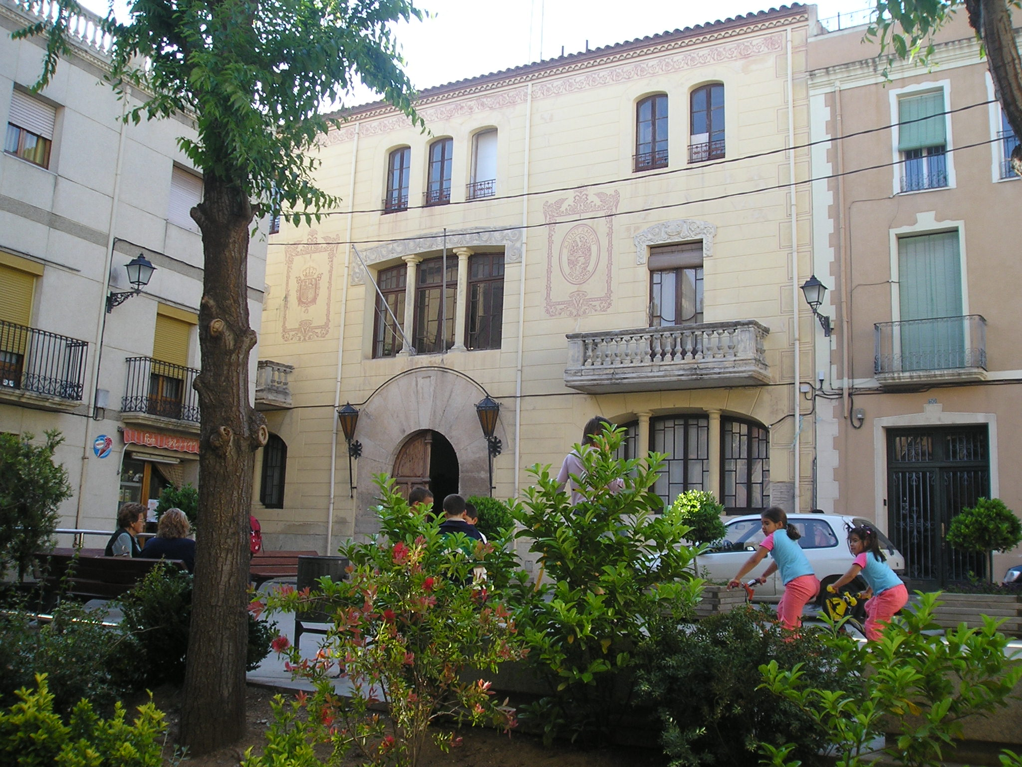 Town Hall of Riudoms